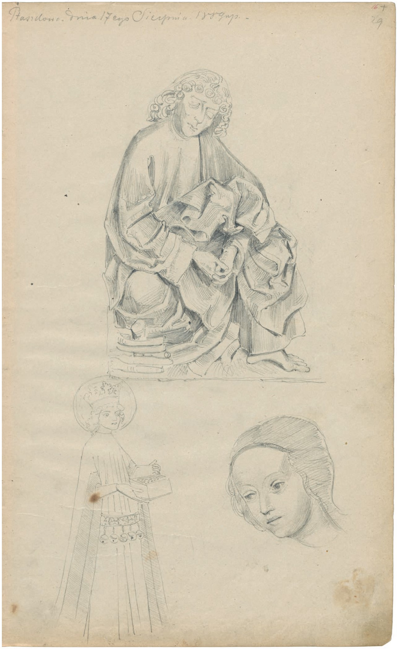 Up: drawing of Wit Stwosz's sculpture "Christ in Gethsemane" from Ptaszkowa by Stanisław Wypiański (1869-1907). Down: other drawings by Wyspiański. Drawing (33,2x20,4 cm, pencil, paper) from Wyspiański's sketchbook, now located in Museum of Jagiellonian University, Kraków, No 15623